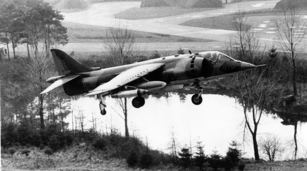 PictionID:42253074 - Title:Hawker Siddeley Harrier Hawker Siddeley Harrier GR.1 - Catalog:15_003306 - Filename:15_003306.tif - ---- Image from the Charles Daniels Photo Collection ----PLEASE TAG this image with any information you know about it, so that we can permanently store this data with the original image file in our Digital Asset Management System.----SOURCE INSTITUTION: San Diego Air and Space Museum Archive